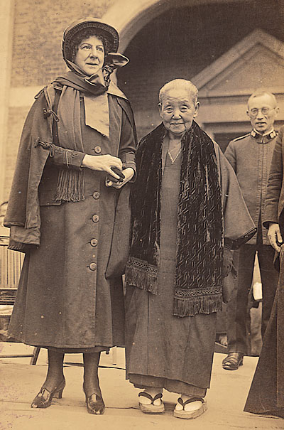 Yamamoto (Neesima) Yae, wife of Joseph Hardy Neesima; pictured here with a foreign missionary